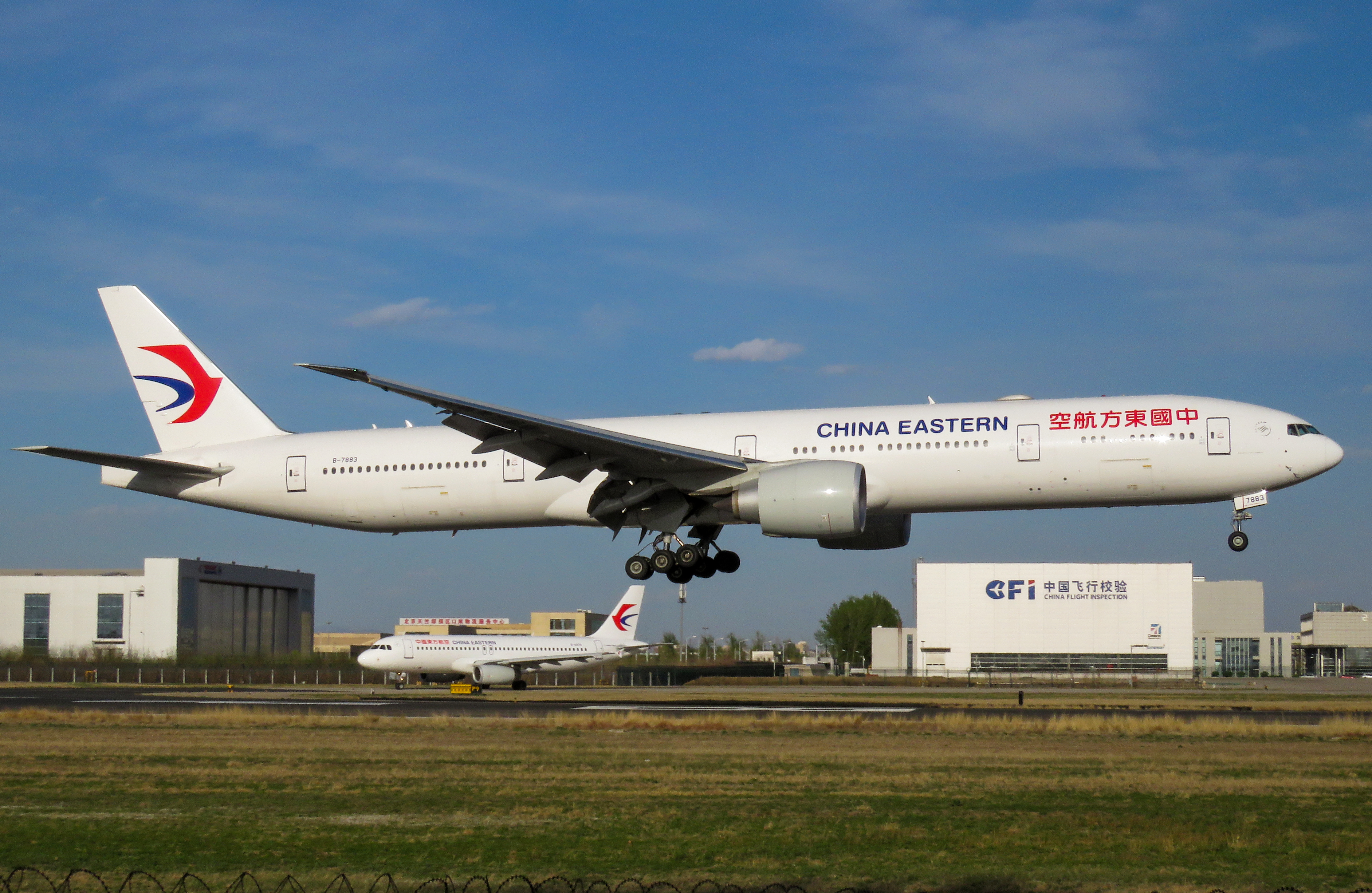 China Eastern 5115 from Shanghai Hongqiao. Today's Tiejiangying boasts a fine weather and breathtaking ground sceneries.